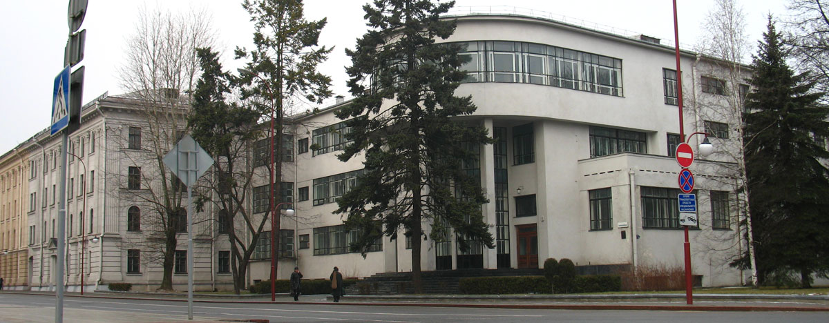 The Building of Former National Library. The Landmark of Constructivism